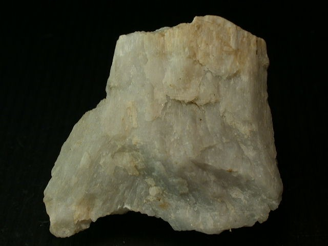 Tilleyite Locality: Crestmore quarries, Crestmore, Riverside County, California, USA Original description: A 4.3 by 4.0 cms mass. JSS specimen and photograph.